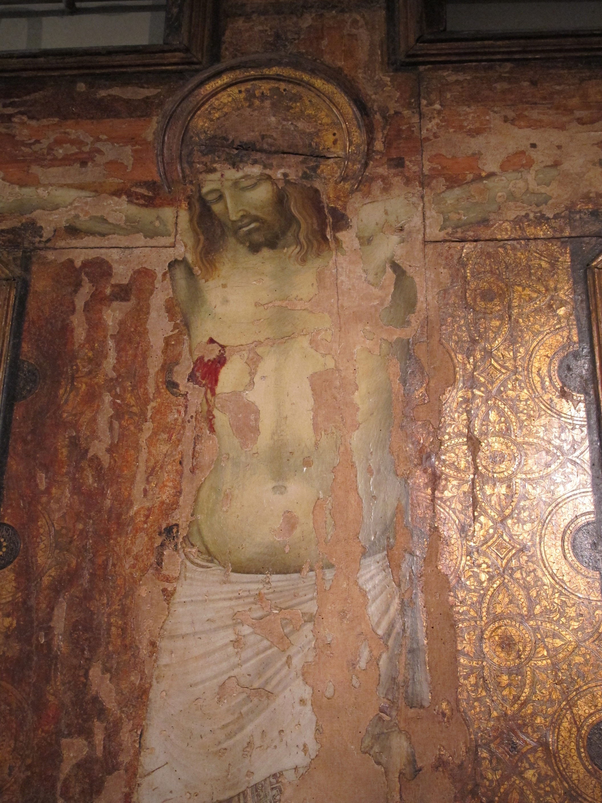 Painting crucifix